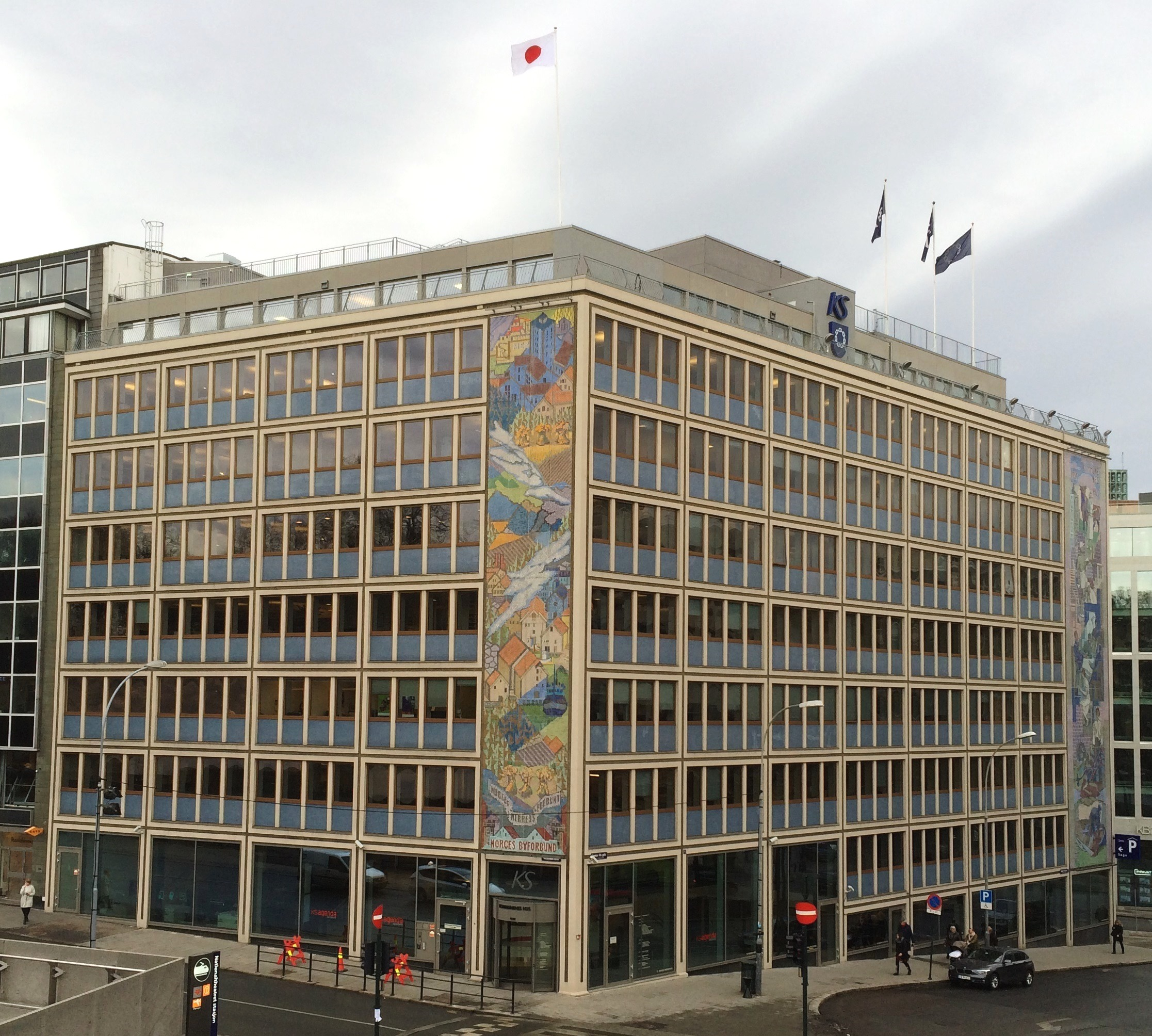 This house in Haakon VIIs gate in Oslo contains the Japanese embaasy, as can be seen from the flag on the roof.